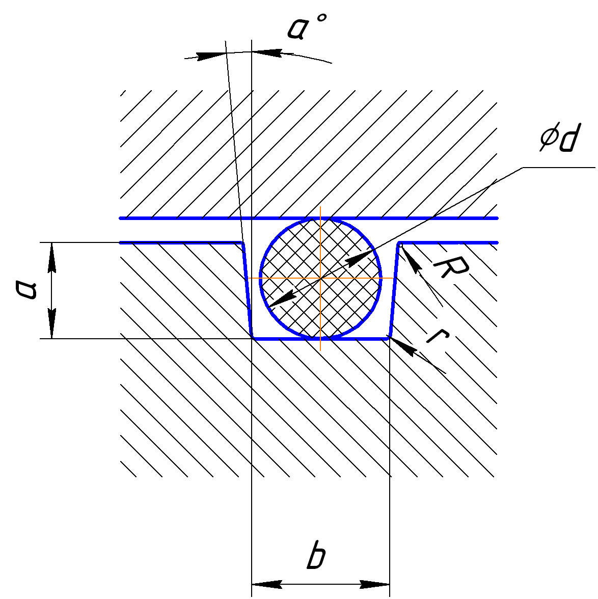 O-ring, rectangular groove, dimensions.